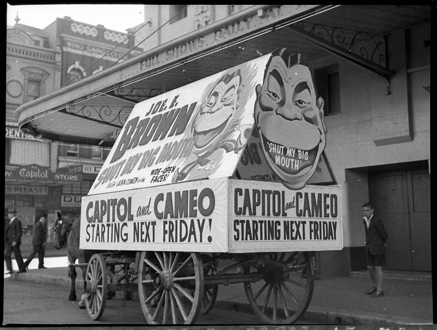 Capitol Theatre advertising on a cart for Joe E. Brown's comedy film Shut My Big Mouth (1942).